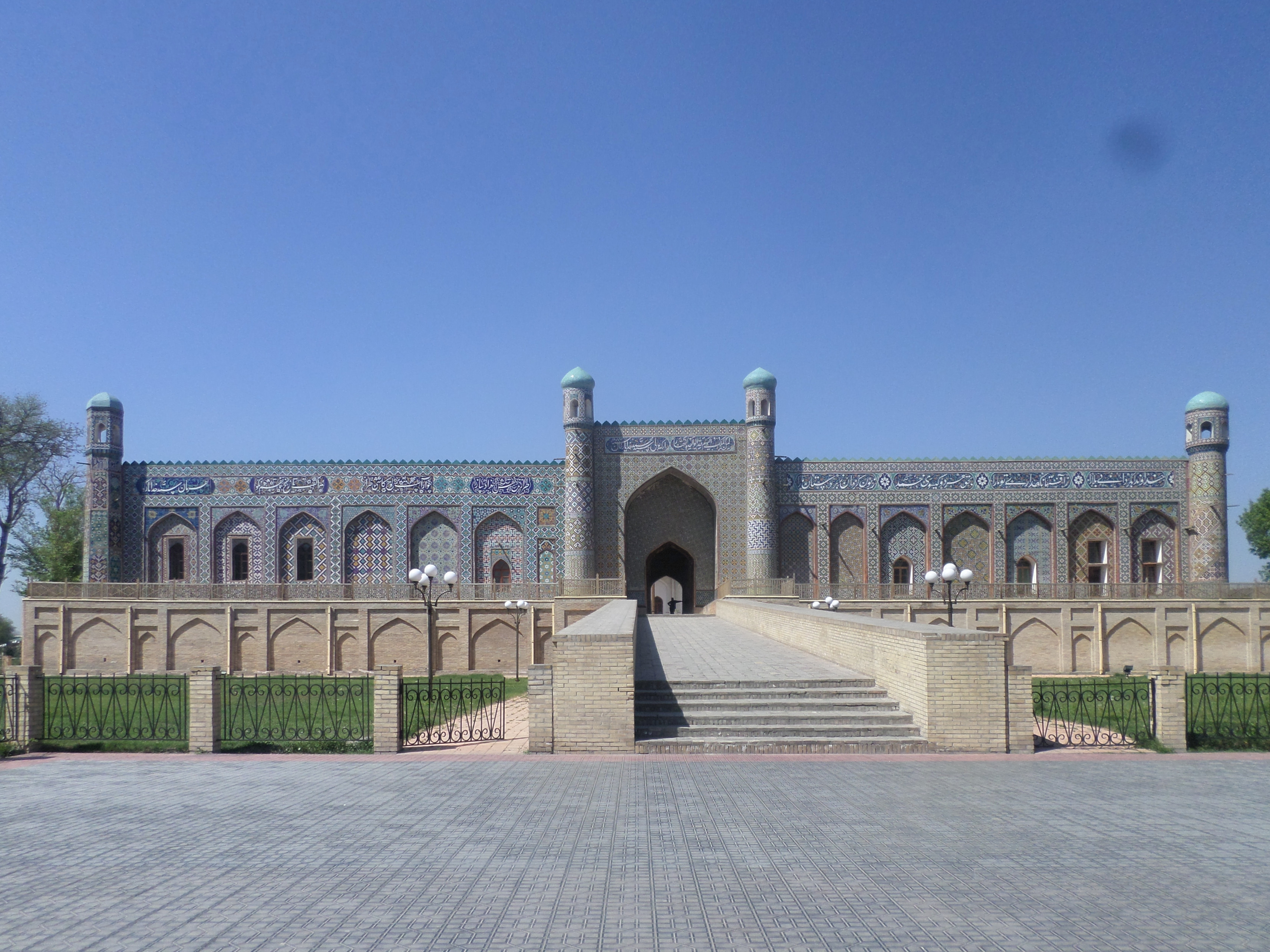 Khudayar Khan Palace, Kokand.